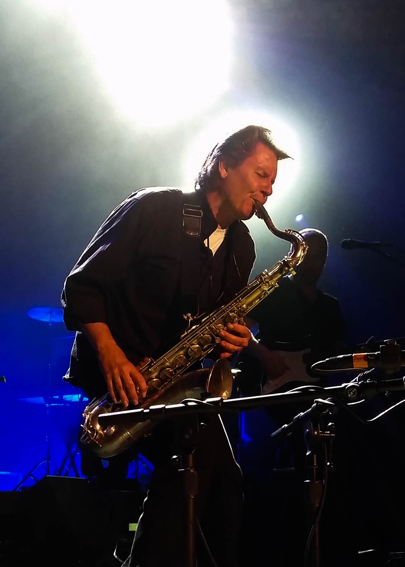 Scott Page, performing at The Orpheum Theatre in Los Angeles, California on June 17, 2015, as a special guest of Brit Floyd.